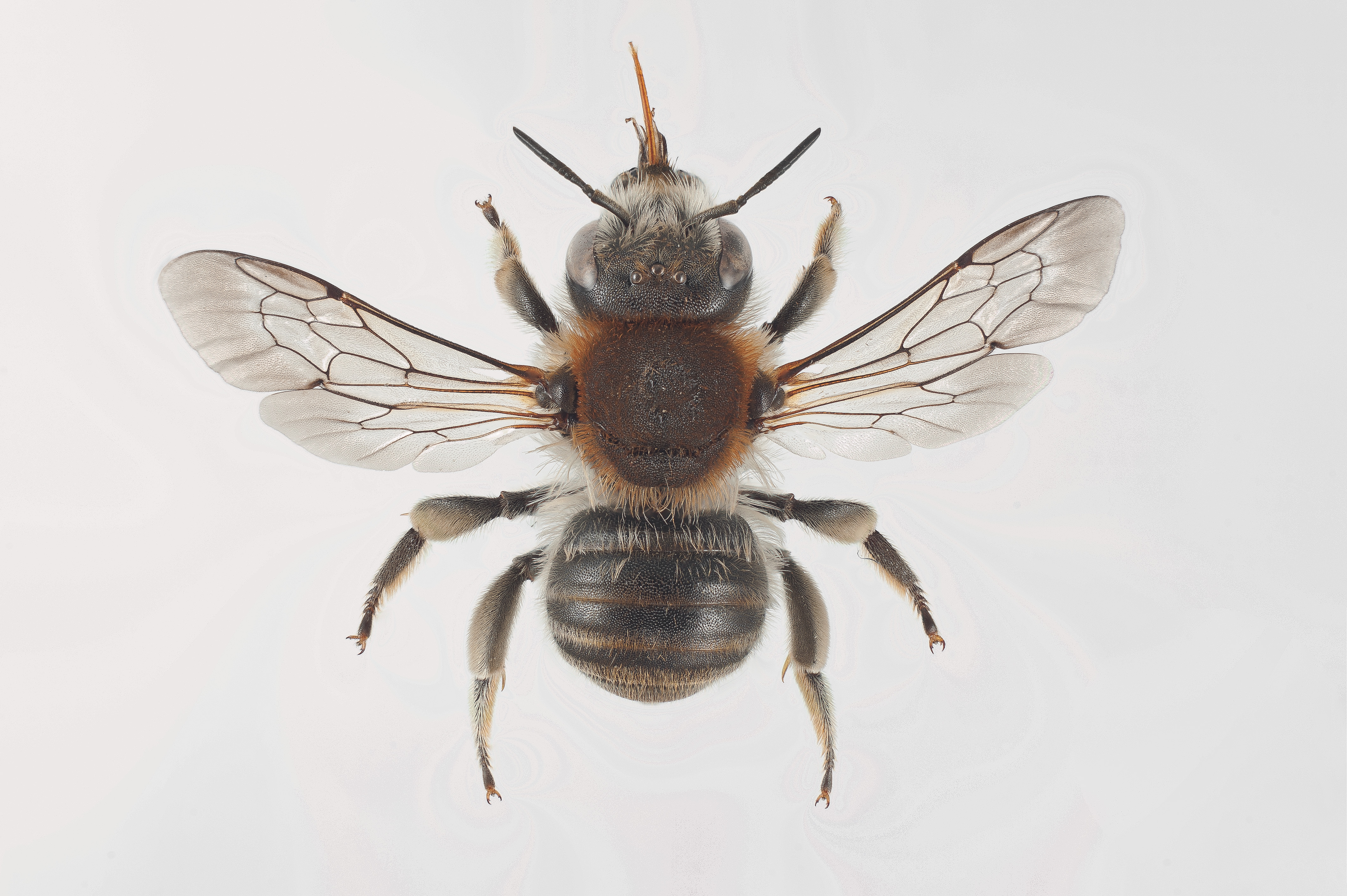 Trachusa byssina